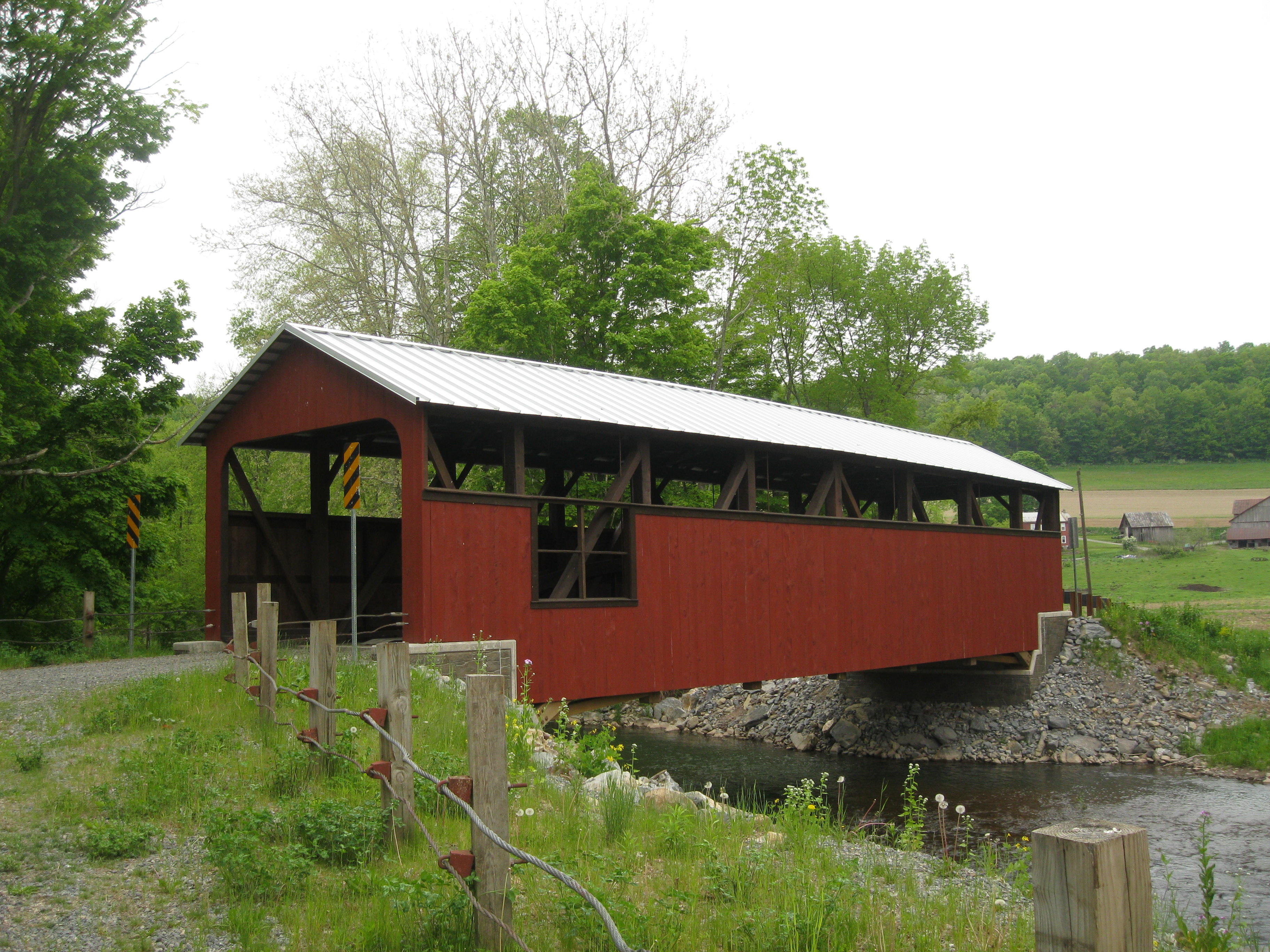 Lairdsville Covered Bridge over Little Muncy Creek in Moreland Township, Lycoming County, Pennsylvania, United States.